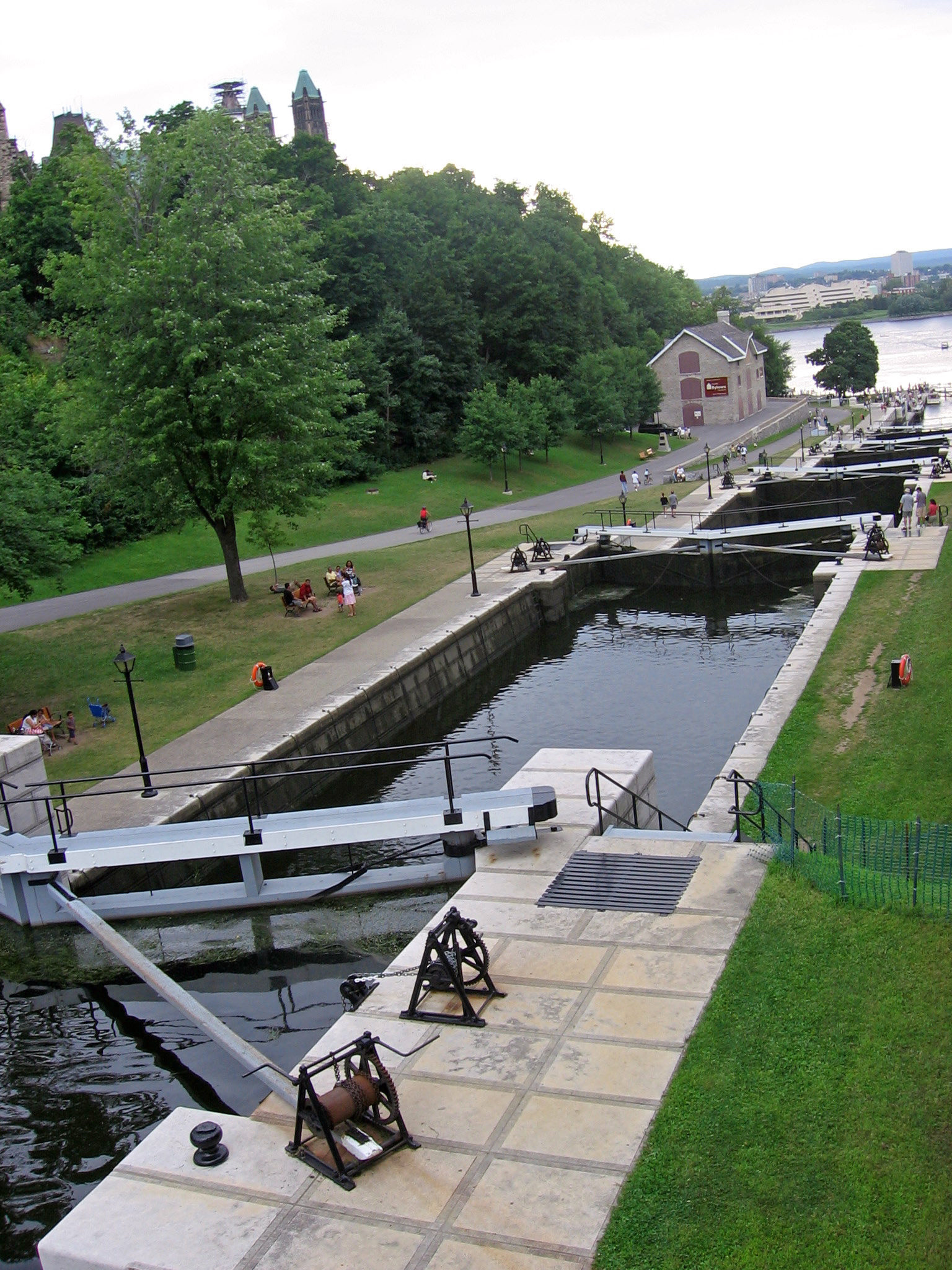 The Rideau Canal in Ottawa.